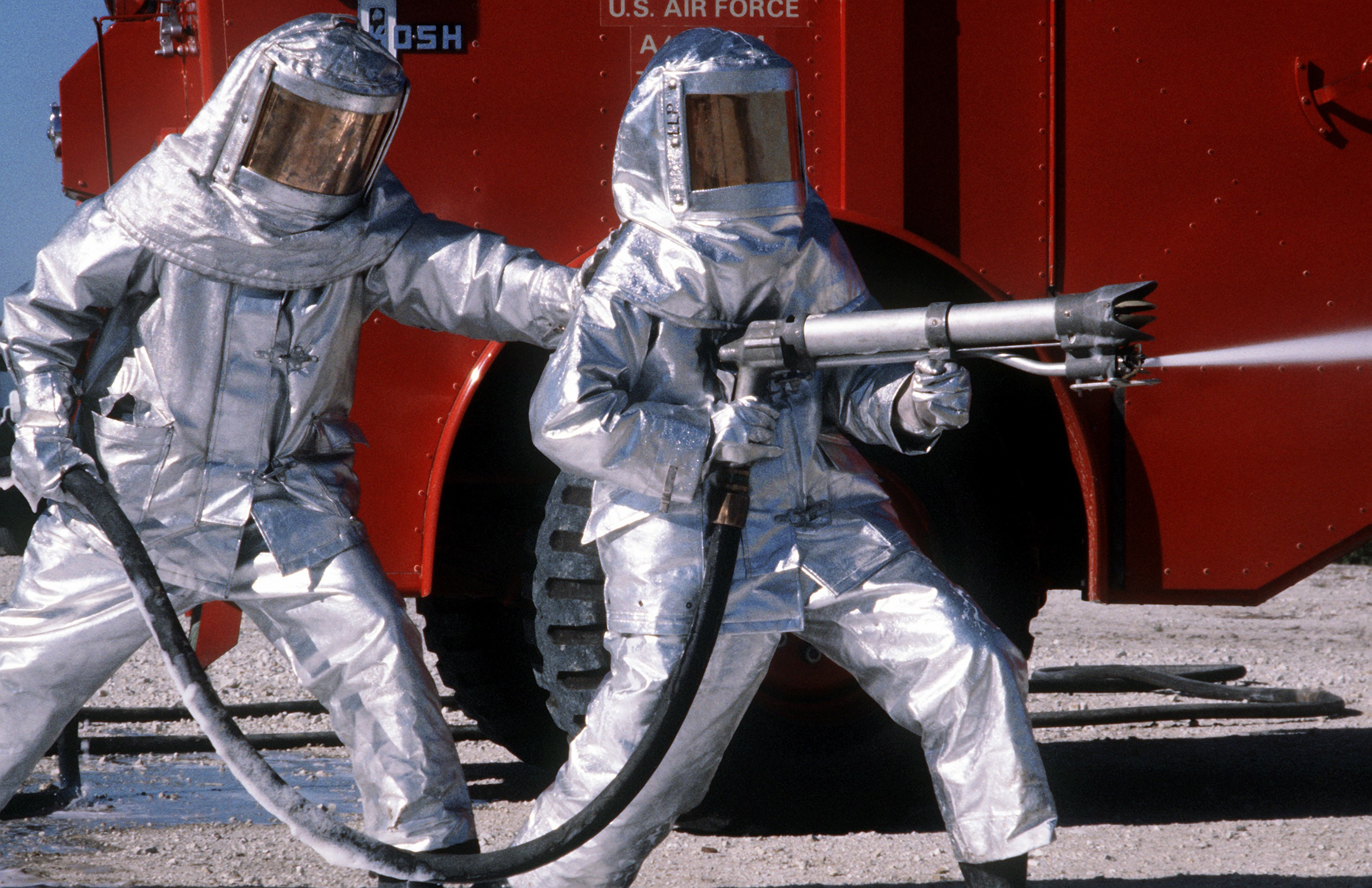 U.S. Air Force firefighters practice with spraying equipment. AAVS (Audiovisual Service) Photo Contest Entry, color, Mar. 1981, "Air Force Fire Fighters" VANDENBERG AIR FORCE BASE, CALIFORNIA (CA) UNITED STATES OF AMERICA (USA)